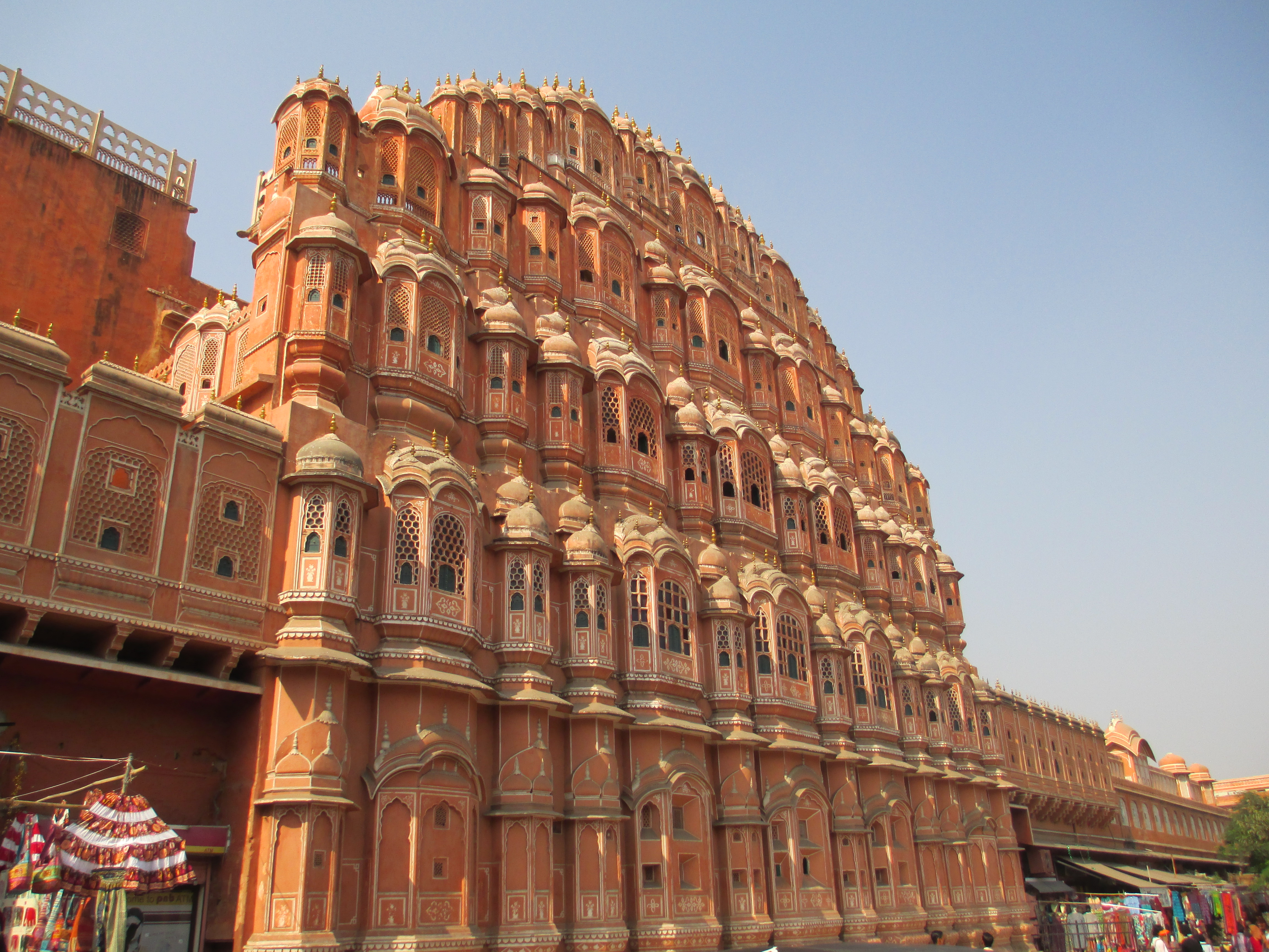 Hawa Mahal, Jaipur India